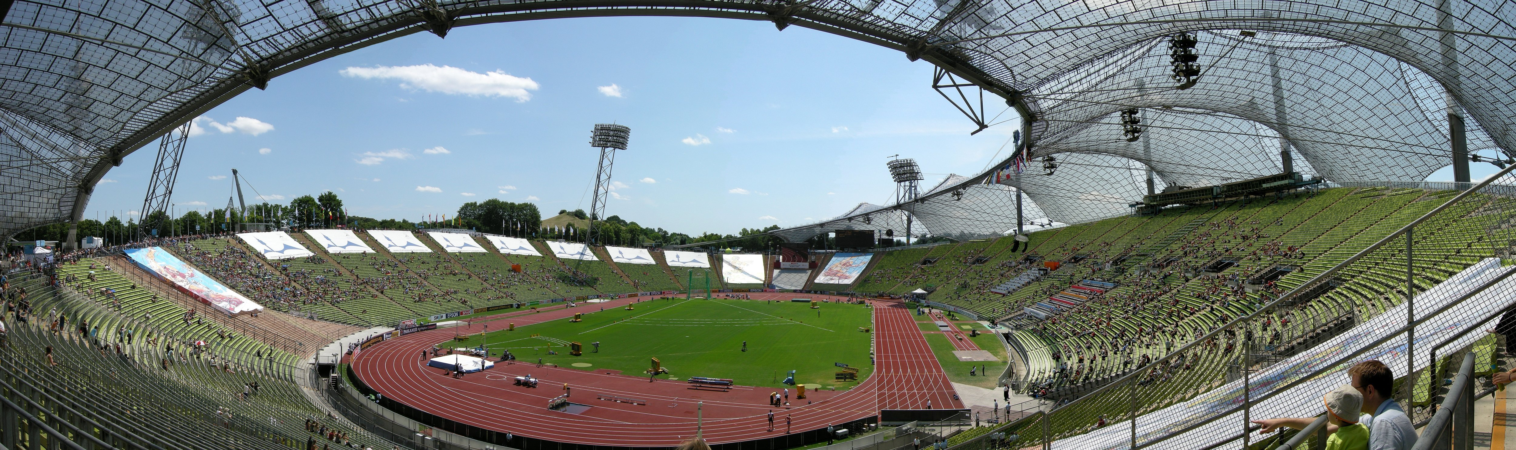 olympic stadium of Munich (1972) during the European Cup 2007